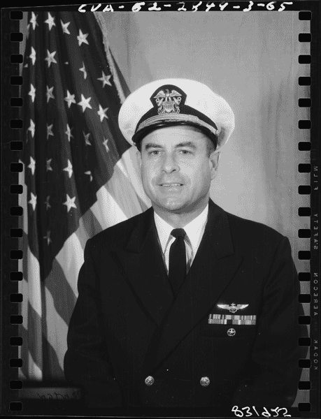 Scope and content: Original caption: CDR J. A. Denton